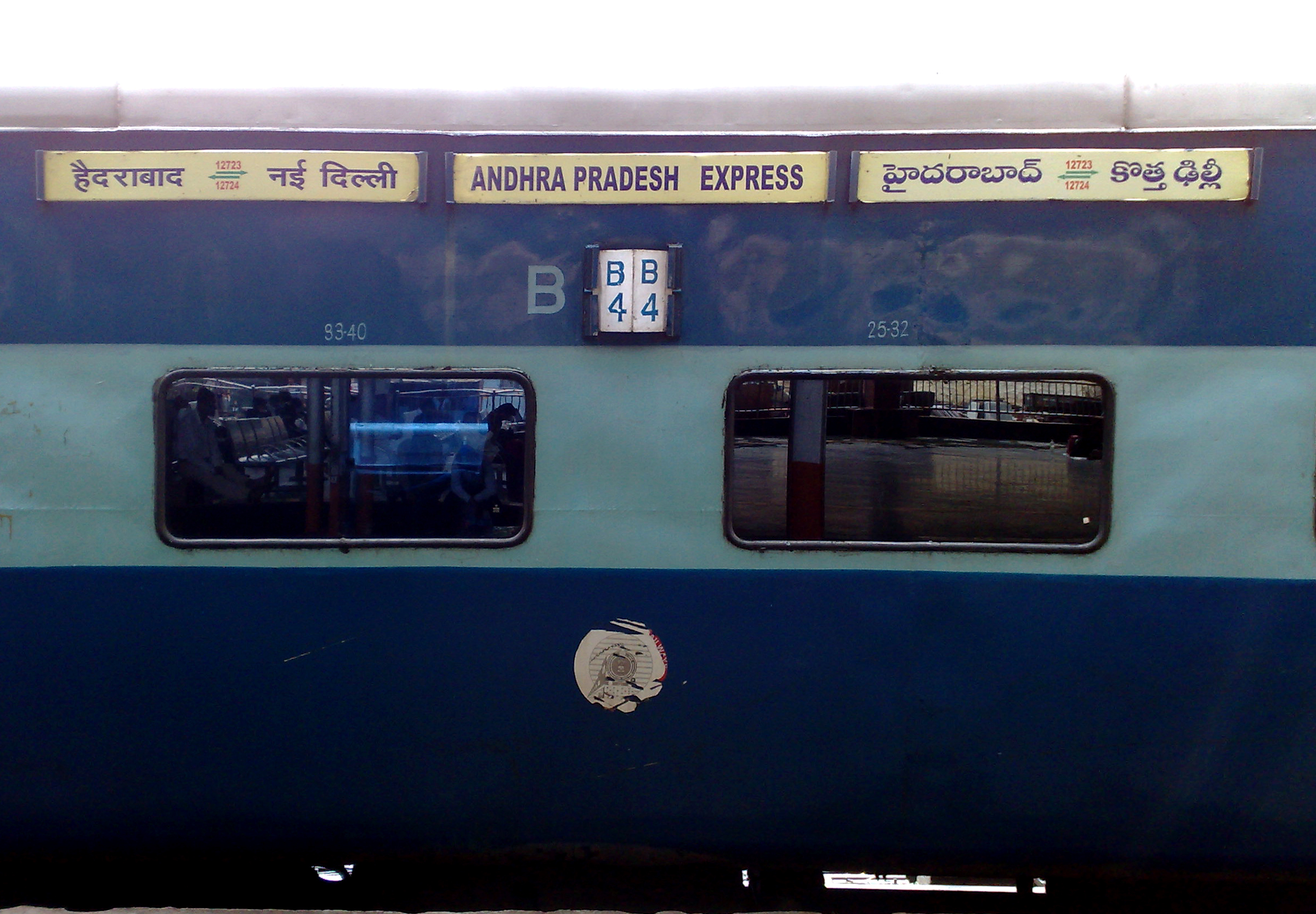 12724 Andhra Pradesh Express